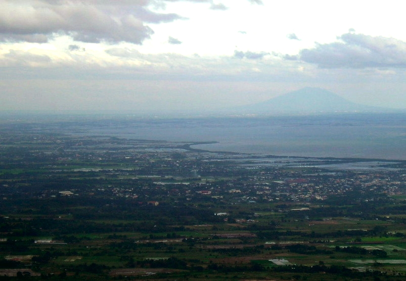 View in direction NNE from Mount Samat War Memorial, near Pilar, Bataan, Luzon Island, Philippines. – "At 555 meters above sea level, the viewing gallery at the arms of the memorial cross provides a panoramic view of the Central Plains of Luzon, the Manila Bay area, and the solitude of Mt. Arayat in the background."